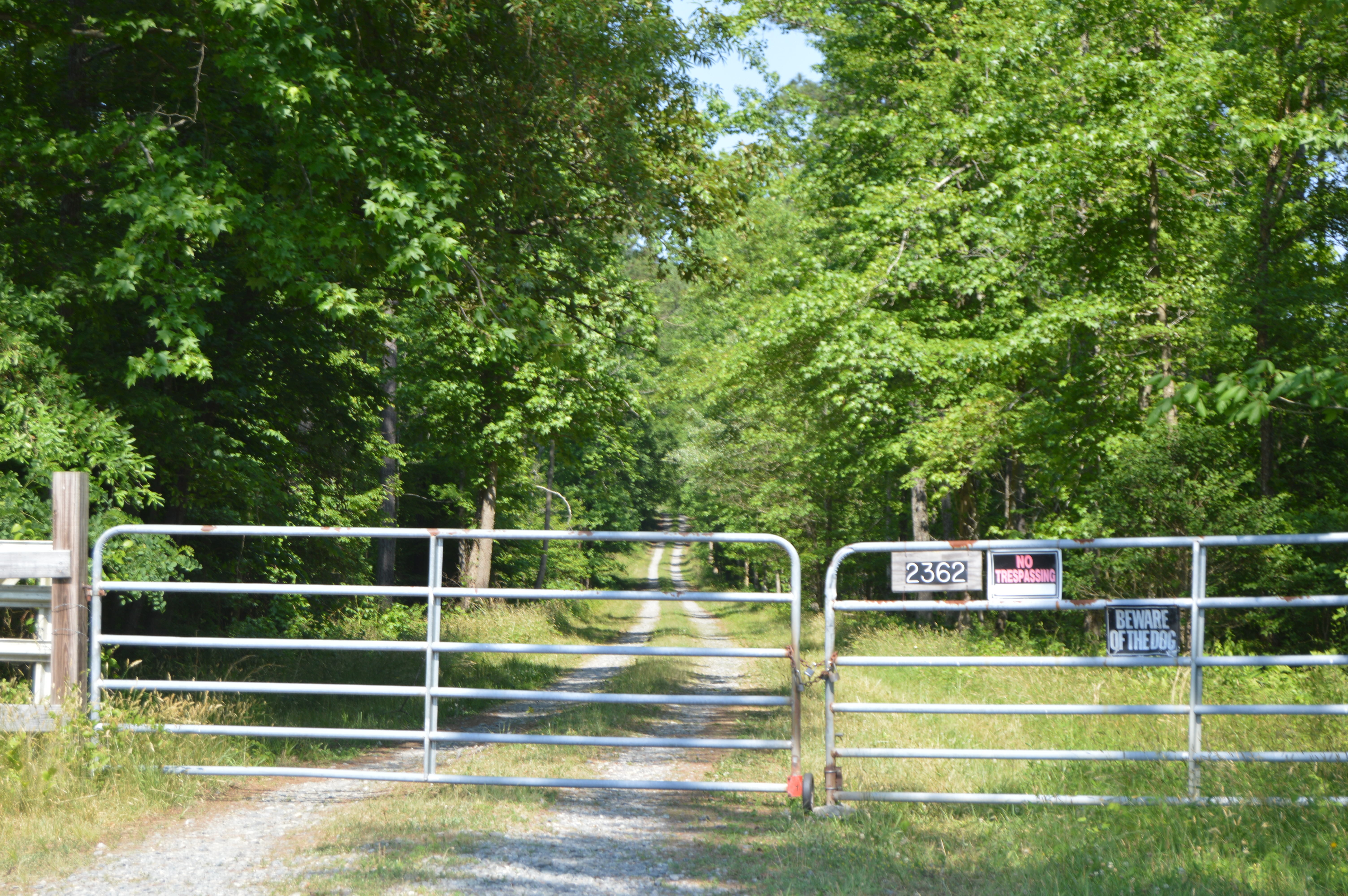 Entrance to the Mount Columbia farmstead, located off Brandywine Road west of Manquin in King William County, Virginia, United States. The farmstead is listed on the National Register of Historic Places.